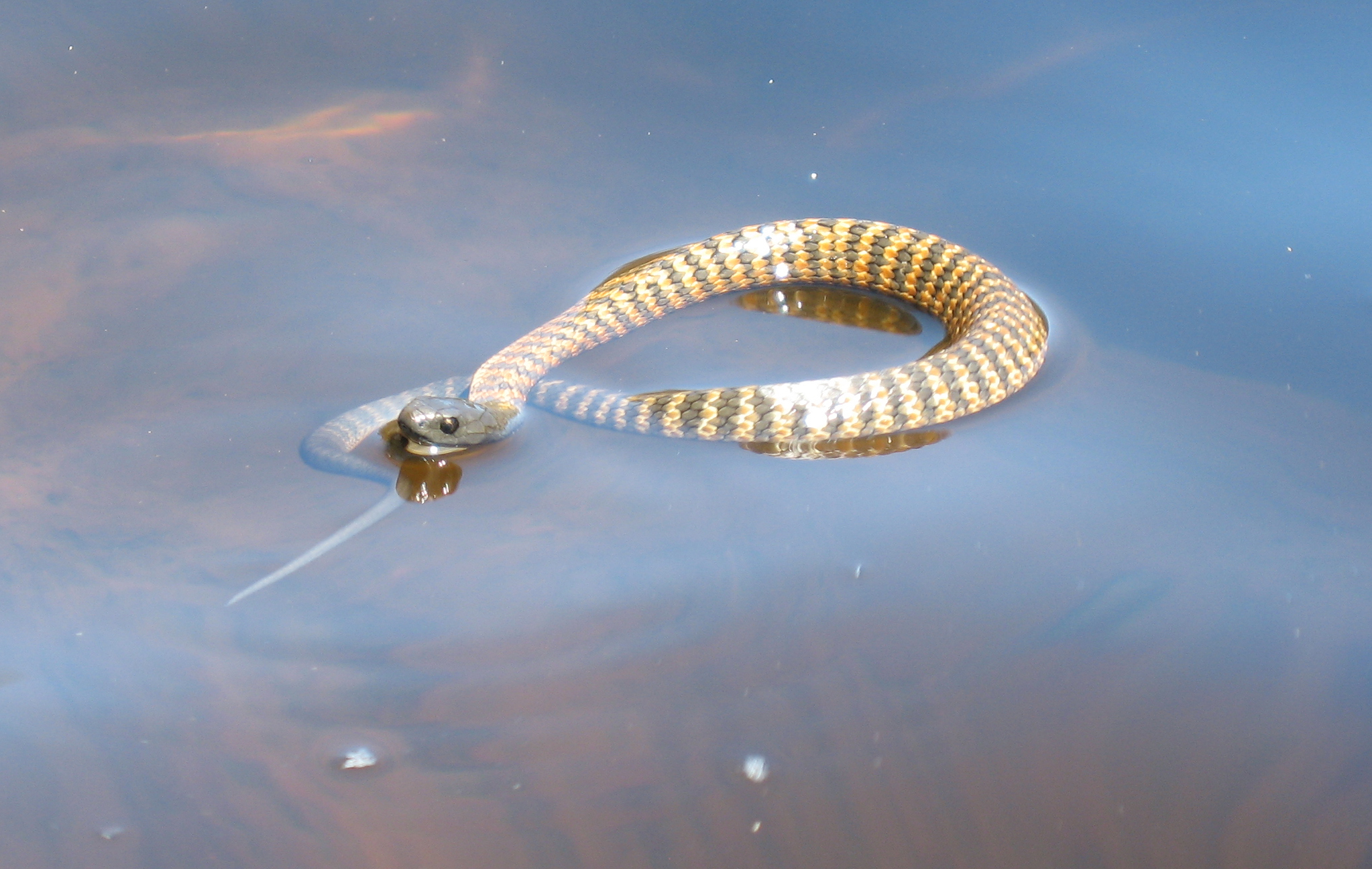 A tiger snake of the species Notechis ater seen on Lake Barrington, Tasmania, Australia, while kayaking.